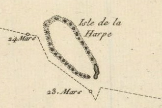 Détail de la carte des Tuamotu établie par Louis Antoine de Bougainville en 1768 (Première division, archipel dangereux, terres basses et noyées) : l'île de la Harpe (actuel Hao).